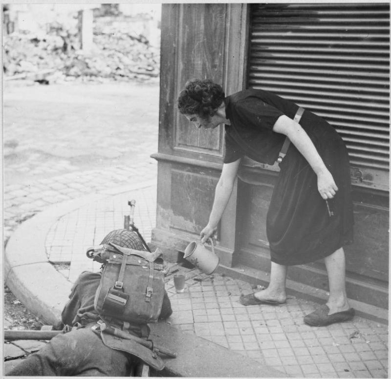 The British Army in the Normandy Campaign 1944 A civilian woman pours a drink of cider for a Bren gunner in action in Lisieux, 22 August 1944.